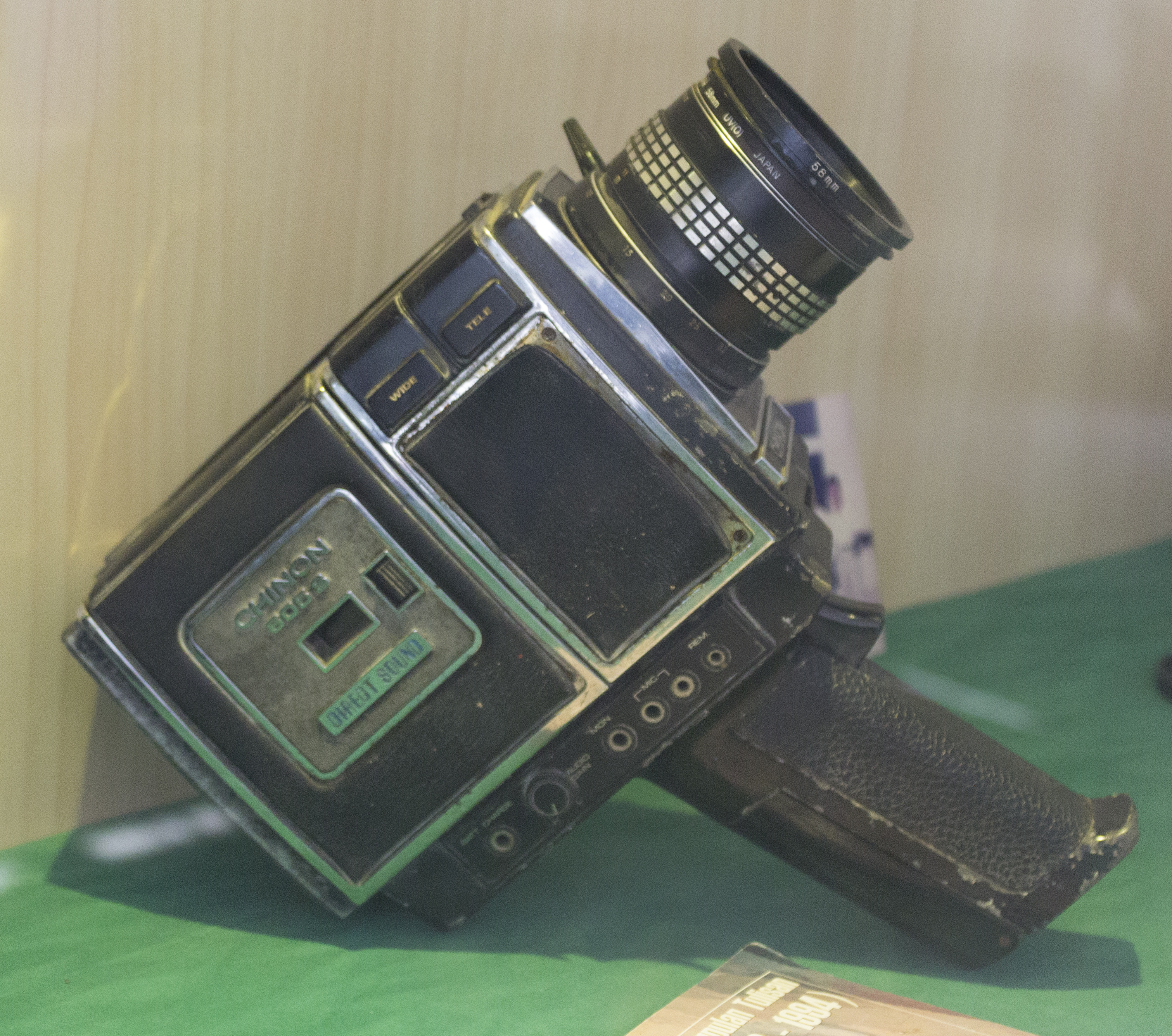 Chinon 606S, Monumen Pers Nasional, Surakarta